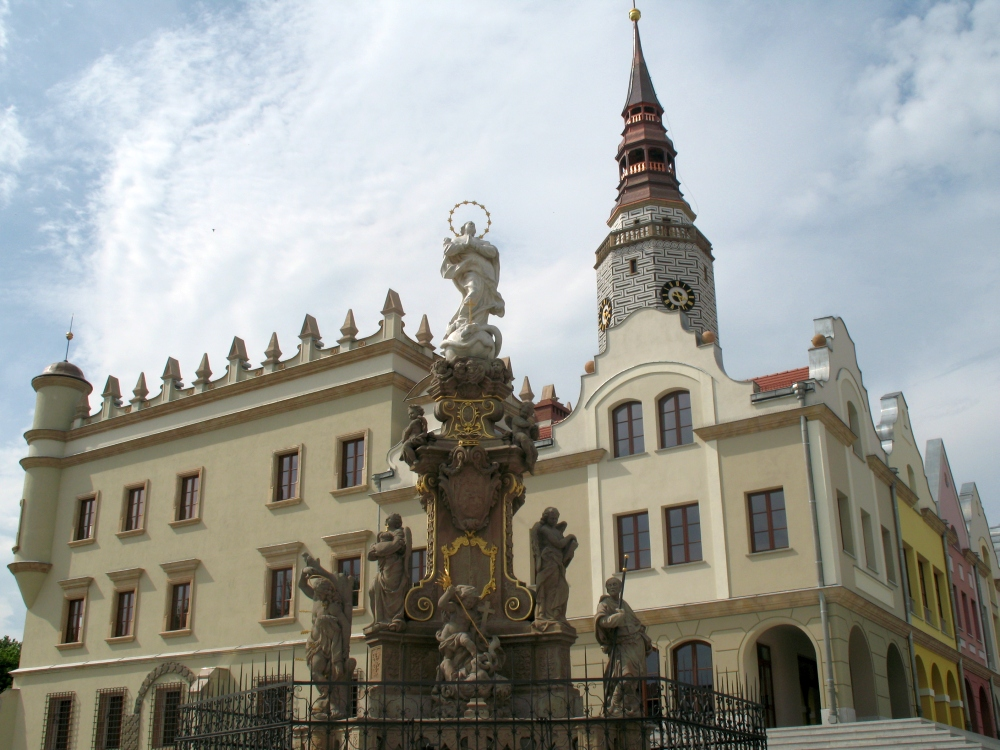 Town hall and Marian column in town square of Głubczyce